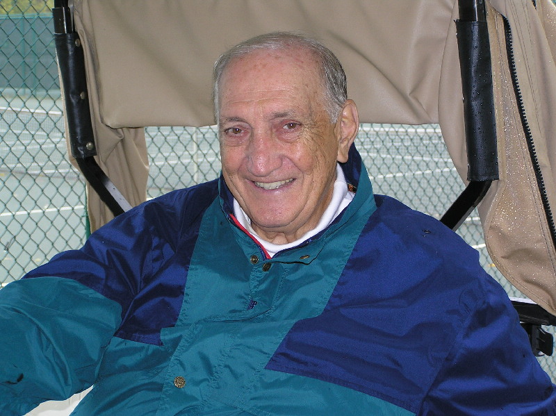 I took this picture of Ralph Branca in 2004.